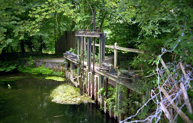 Remains of former Brambridge Lock, Itchen Navigation. See 792016